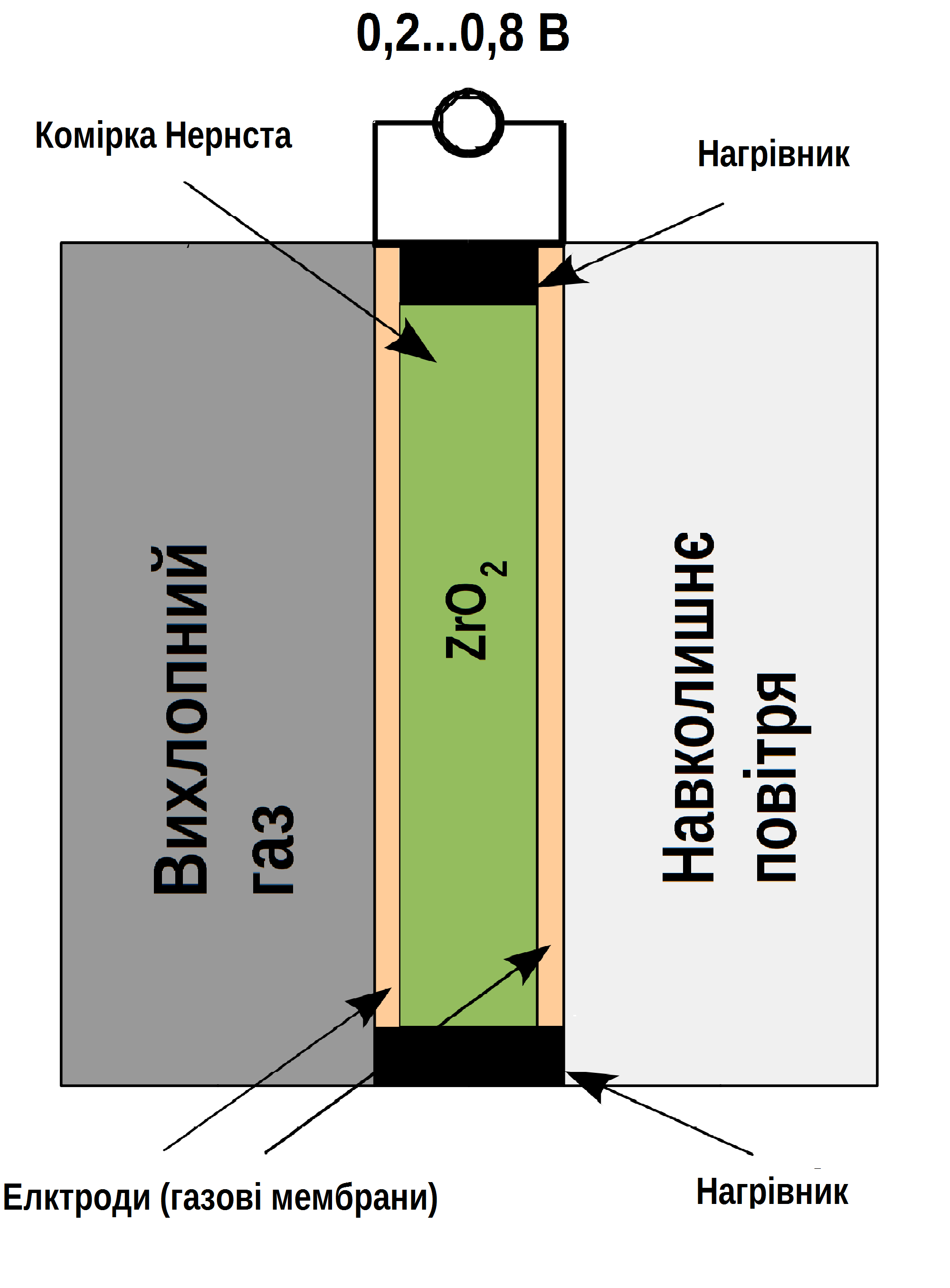 Zirconia Oxygen Sensor / Lambda Probe / Nernst Cell